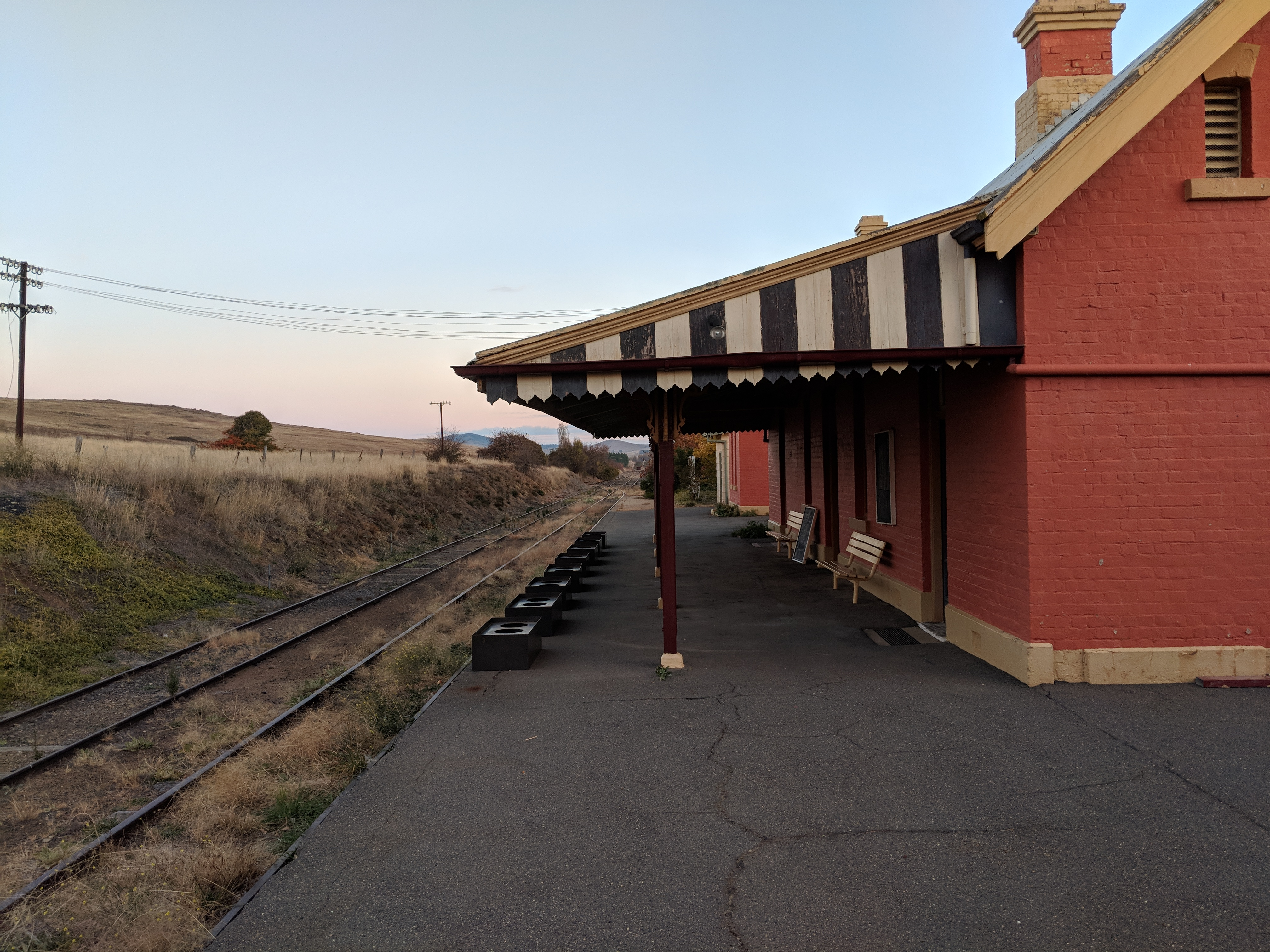 Michelago railway station, trackside